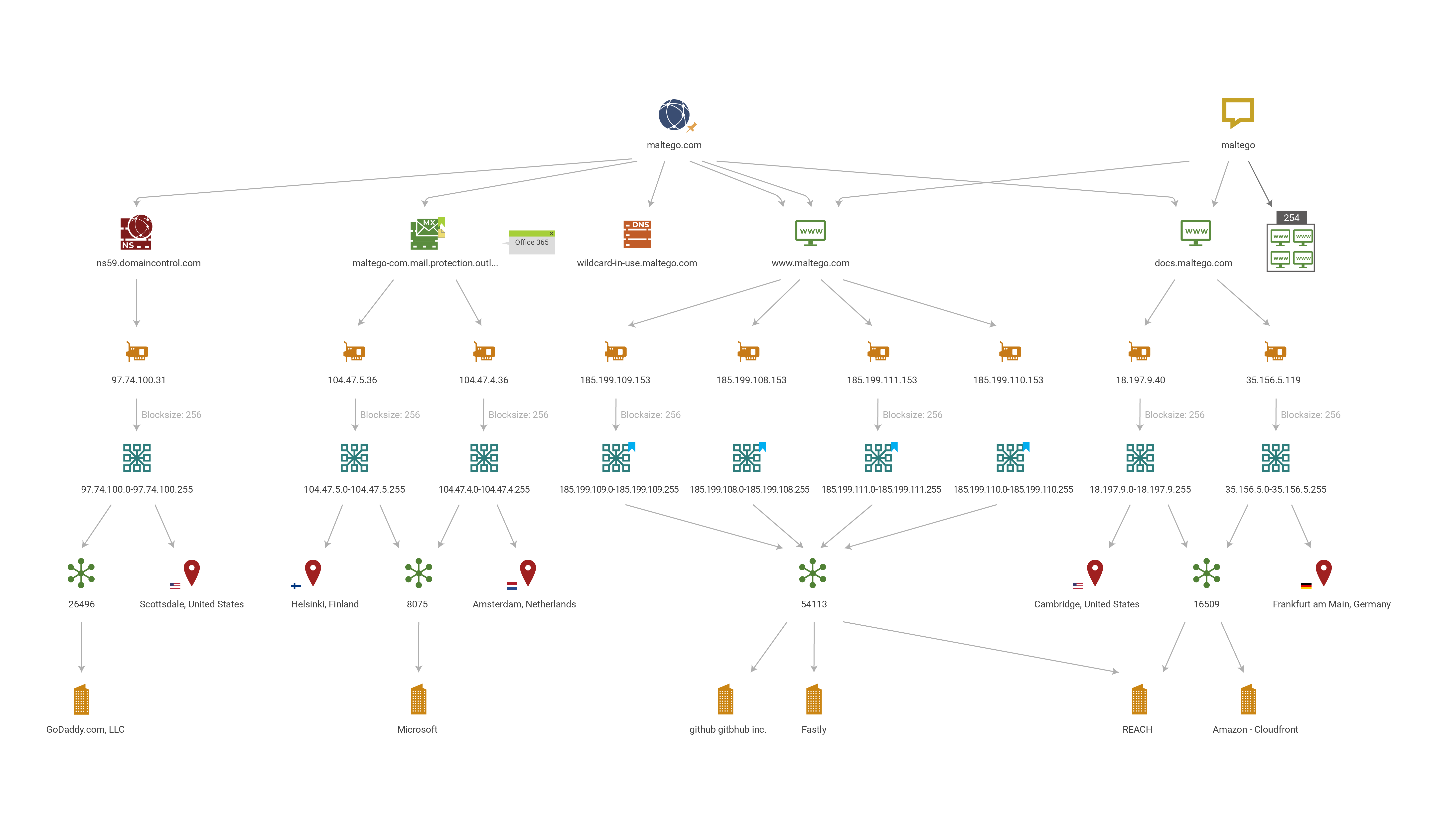 an Example chart showing a Maltego network chart/graph, created with Maltego V4.2